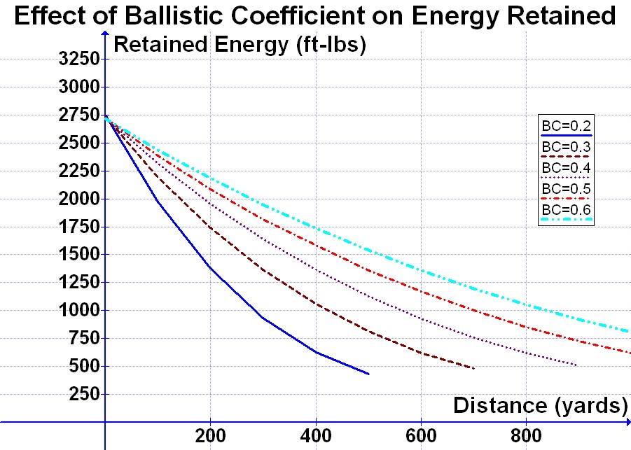 Effect of Ballistic Coefficient on Enegy Retained for a 140 grain projectile with a muzzle velocity of 2950 fps. Data was calculated using the JBM ballistic calculator Trajectory G1 BC.